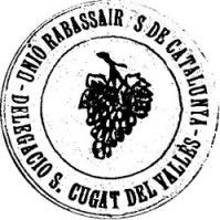 Logotip de la delegació de la Unió de Rabassaires de Sant Cugat del Vallés